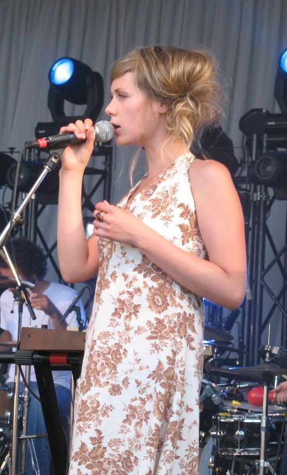 Lisa Lobsinger of Broken Social Scene at Deer Lake Park, Vancouver, Canada.